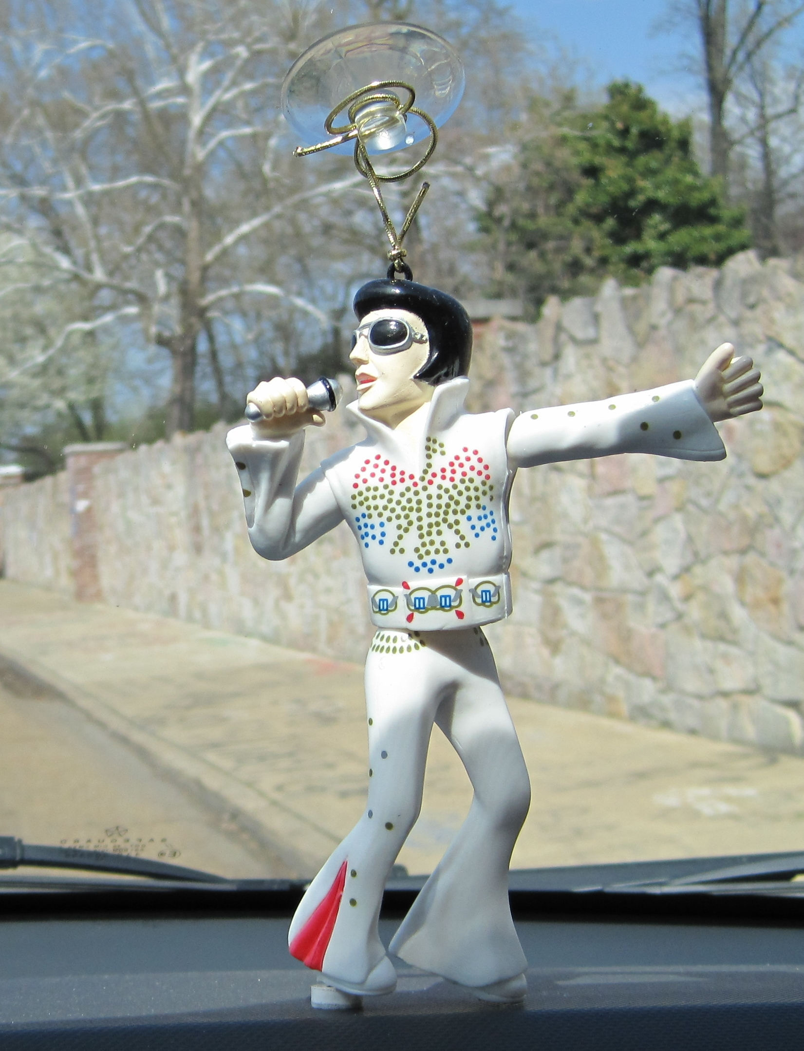 Cropped image of Wackel-Elvis with the Graceland mansion wall in the background. (Memphis, Tennessee)